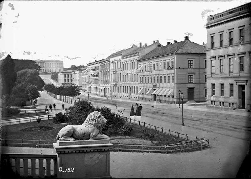 A block of Karl Johan's street in Christiania (Oslo), as seen from the hill in front of the Parliament building; the Royal Castle in the background; around 1863–83